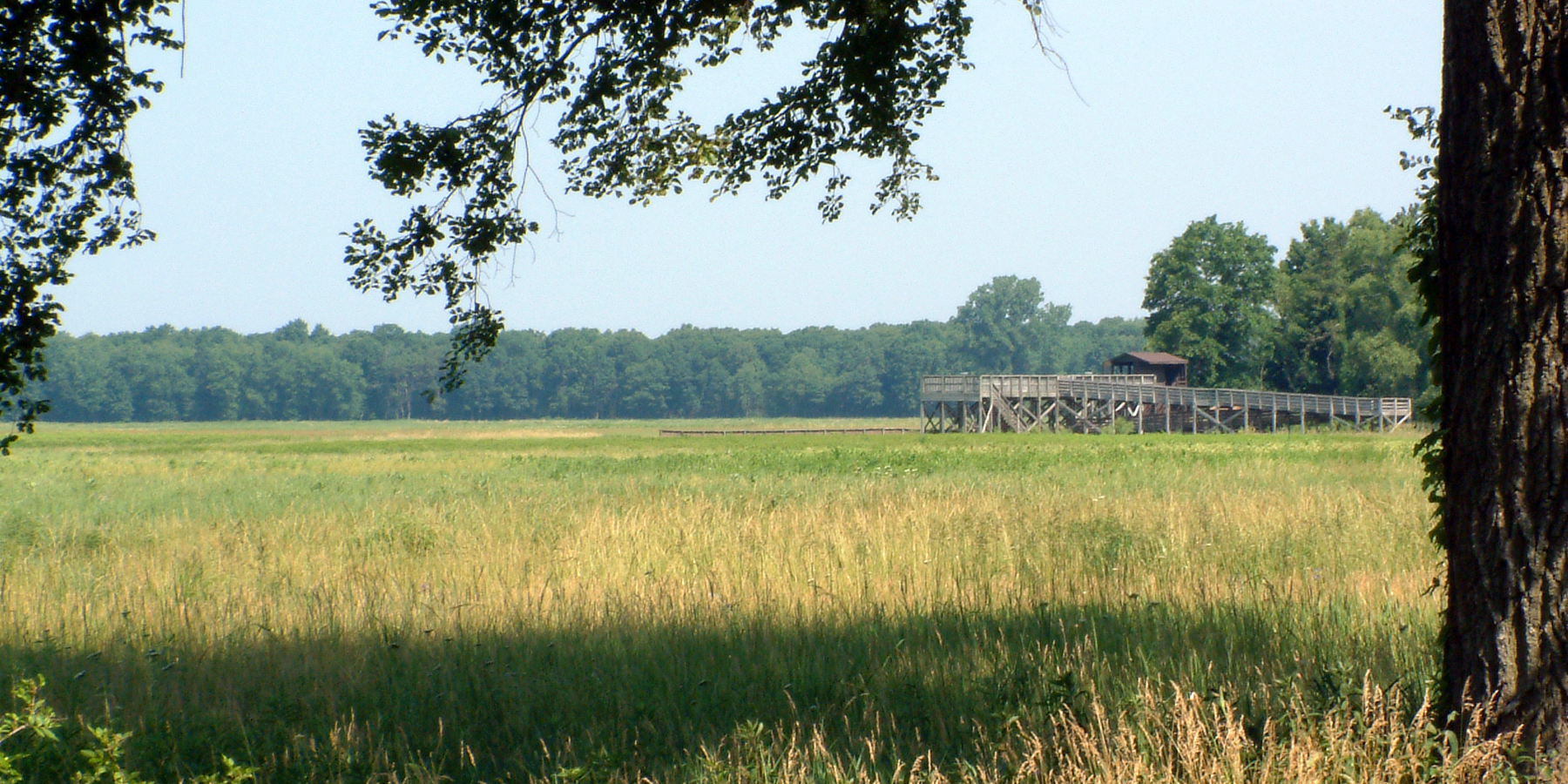 Looking northwest toward the sandhill crane observation platform at the Jasper-Pulaski Fish and Wildlife Area in northwestern Pulaski County, Indiana.